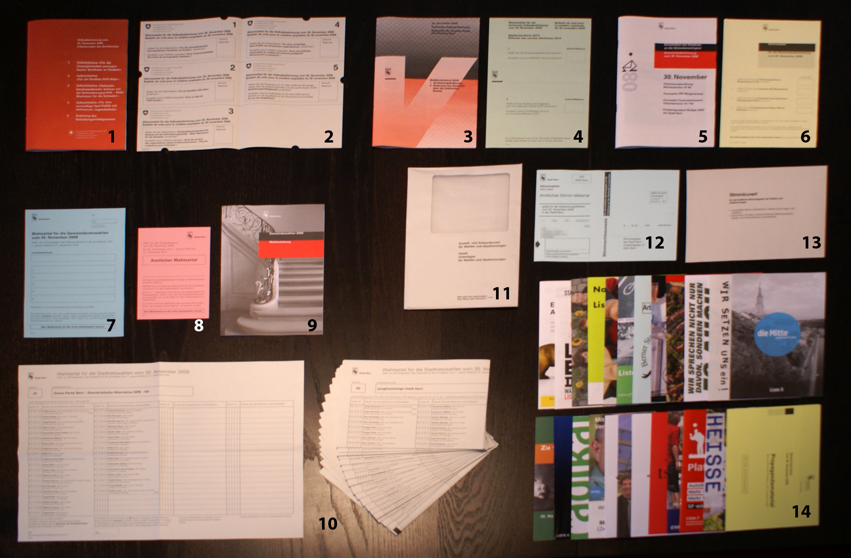 The voting material received by a Swiss citizen resident in the city of Berne for the 30 November 2008 referenda and elections: National referendum government information booklet National referendum ballot (5 issues) Cantonal referendum government information booklet Cantonal referendum ballot (2 issues) Municipal referendum government information booklet Municipal referendum ballot (4 issues) Municipal election ballot for the city government (5 seats including the mayor) Municipal election ballot for the mayor of Berne Municipal election government information booklet Municipal election ballots for the city parliament (80 seats). Preprinted ballots for all party lists and one empty ballot are provided. Voters may cast only one ballot. Return envelope for postal voting. To vote by mail, voters must insert the sealed ballot envelope (13) and the signed voter identification card (12) into the return envelope and mail it to the city chancellery for counting. Voter identification card. It must be signed in order for a mail vote to be valid. It is discarded after validation and before the ballot envelope (13) is opened, so as to preserve the secrecy of the ballot. Ballot envelope. Mail voters must insert their ballots and seal the envelope. Election advertising material produced by the parties. Each party is restricted to one brochure of a prescribed format to be delivered to voters this way.